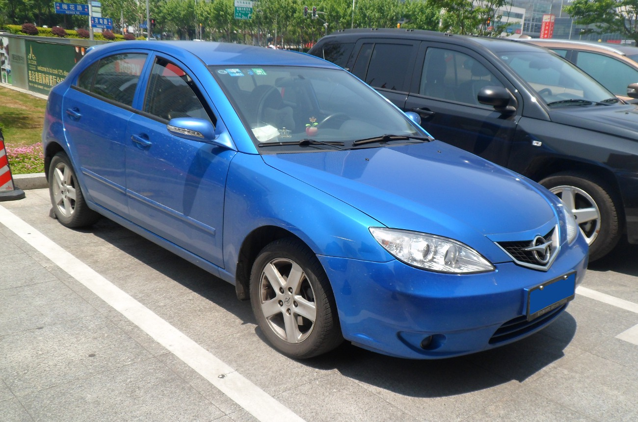 Haima 3 hatch photographed in Shanghai, China.